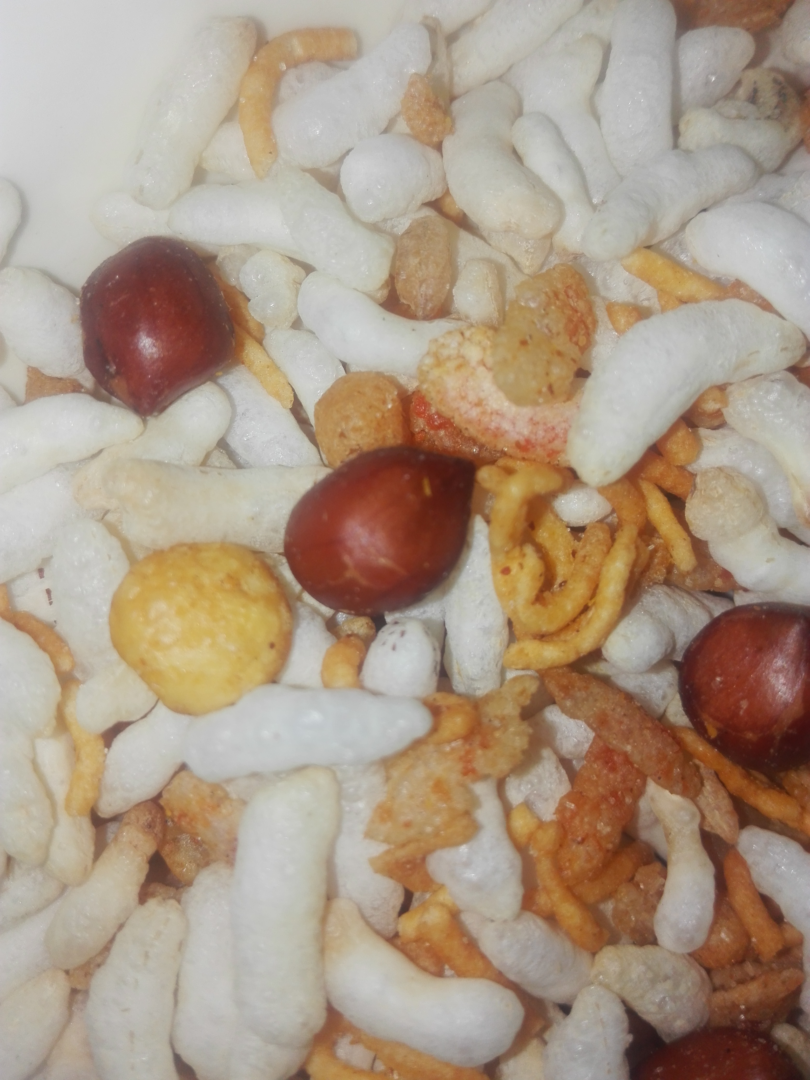 puffed rice with chanachur